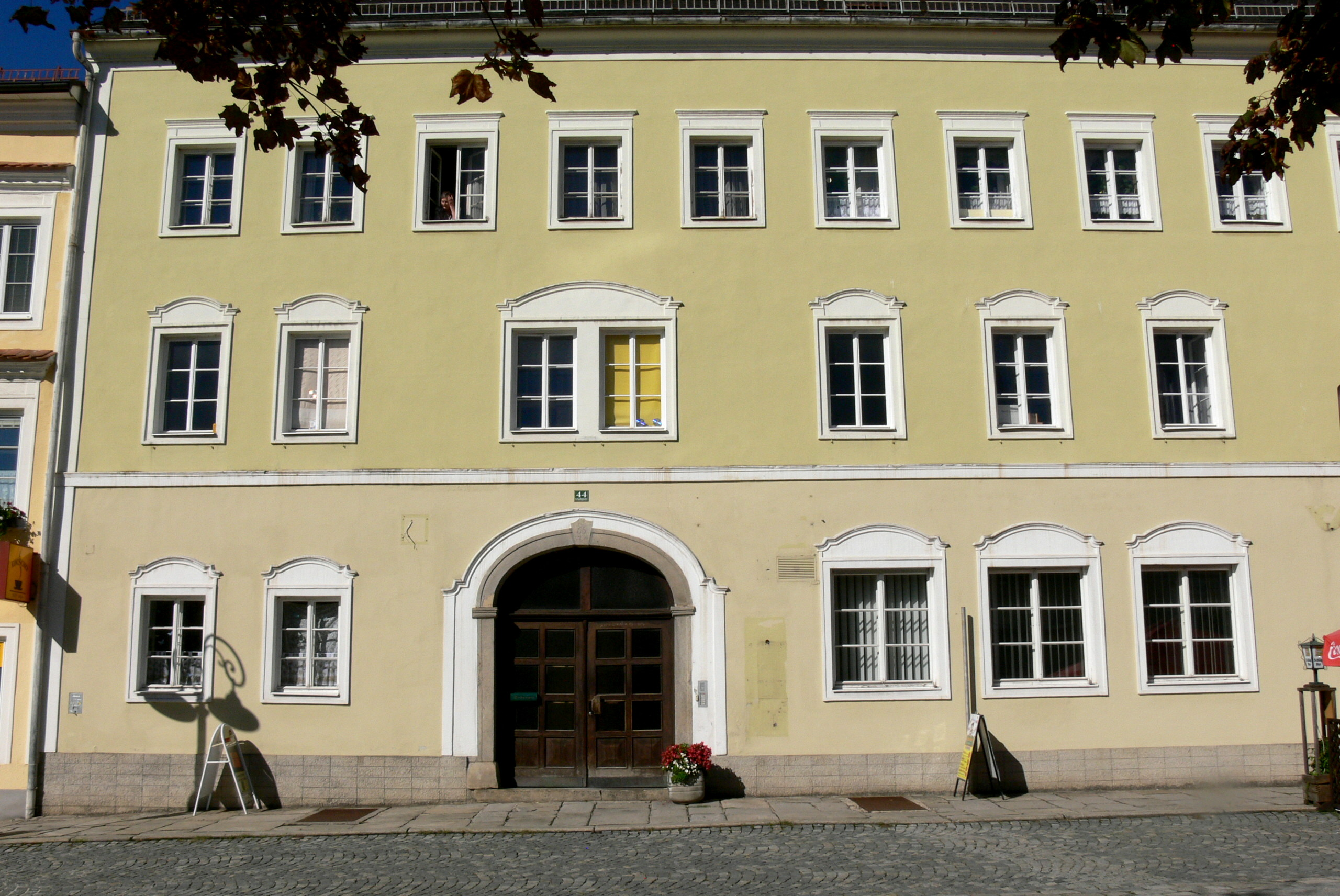 Haslach ( Upper Austria ). Marktplatz 44 - former district court.